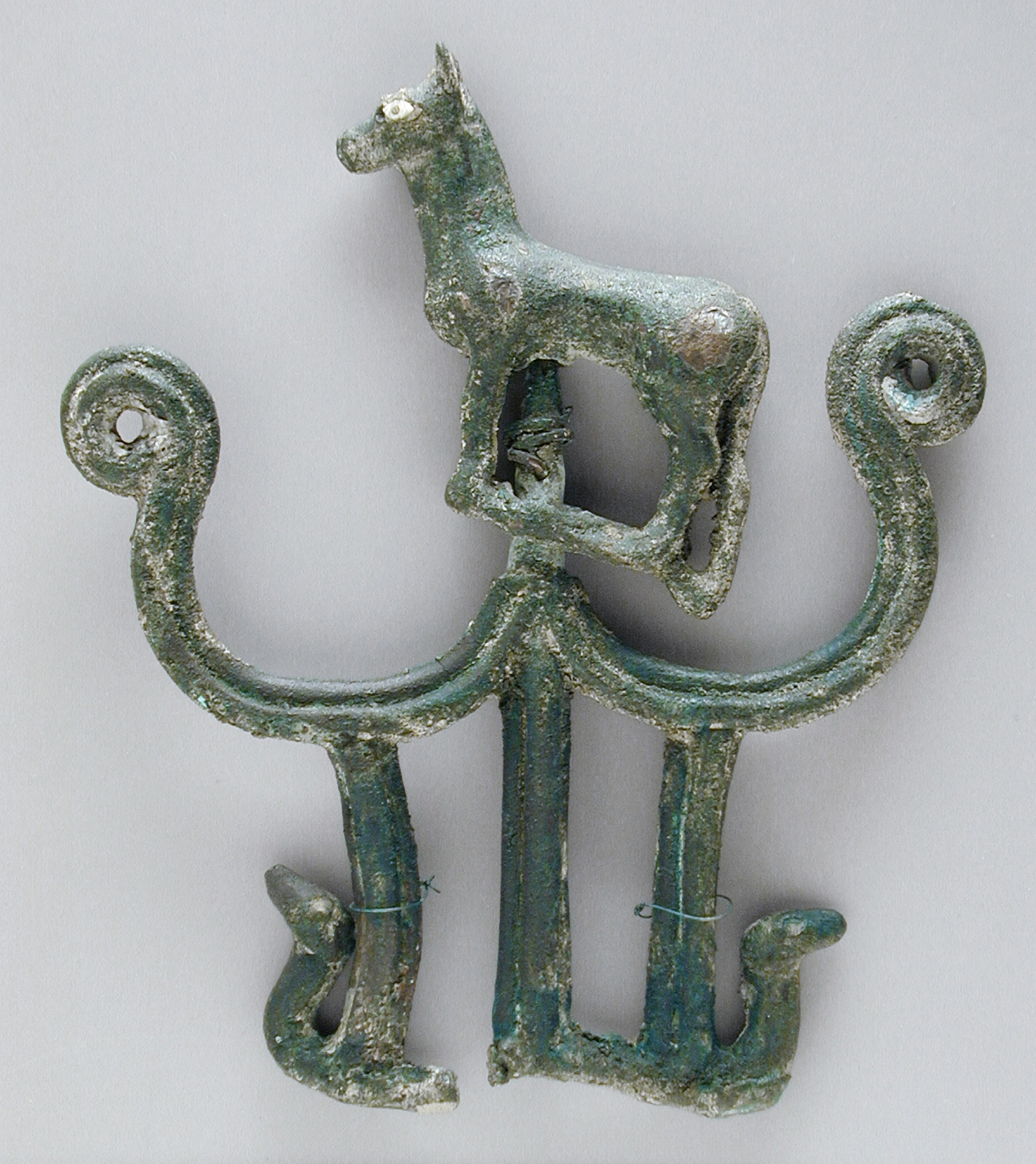 Iran, Elamite, circa 2600-2400 B.C. Tools and Equipment; horse trappings Bronze, cast 5 x 4 1/4 in. (12.7 x 11.1 cm) The Nasli M. Heeramaneck Collection of Ancient Near Eastern and Central Asian Art, gift of The Ahmanson Foundation (M.76.97.574) Art of the Ancient Near East